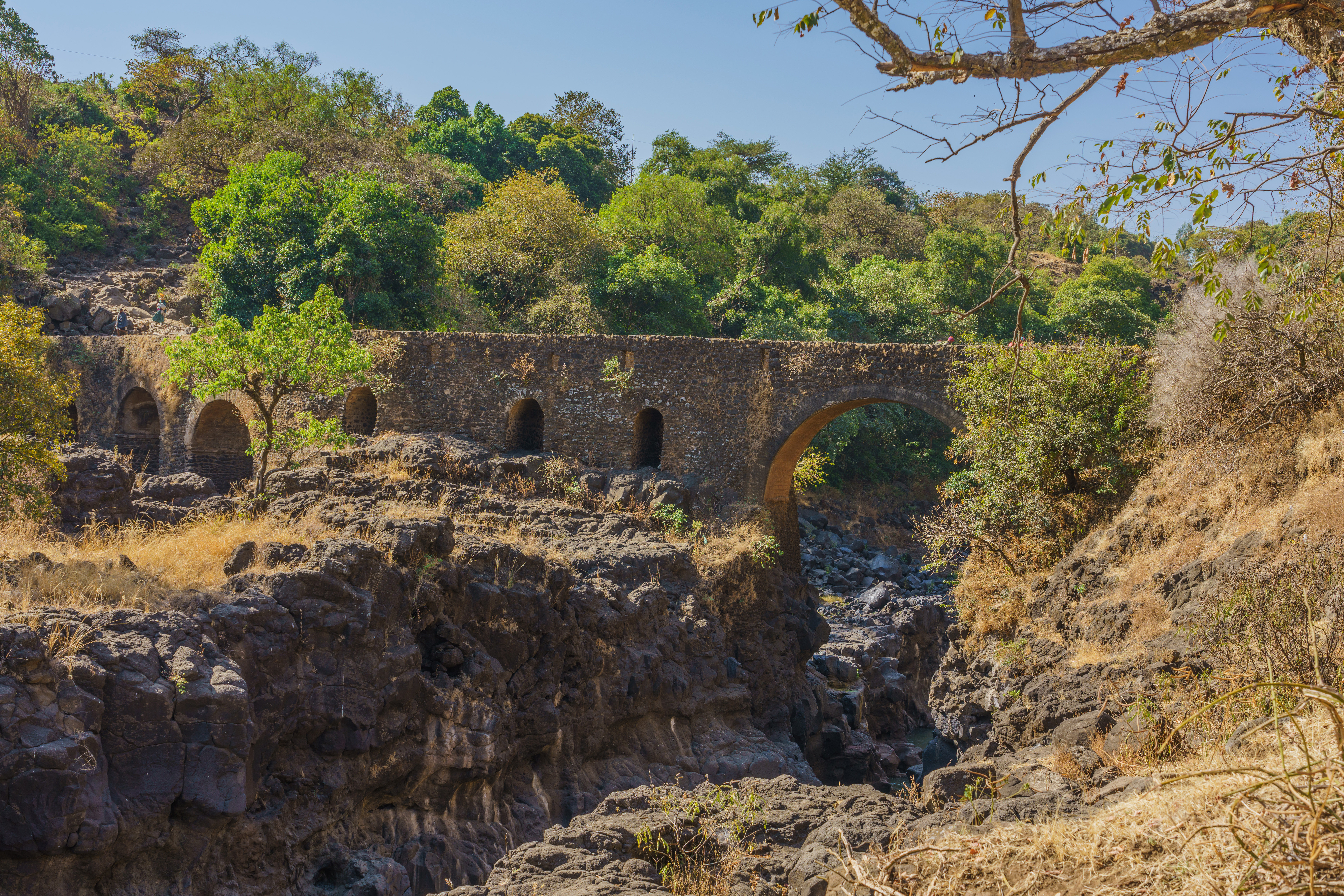 Portuguese Bridge over Blue Nile River at Blue Nile Falls near Bahir Dar, Ethiopia